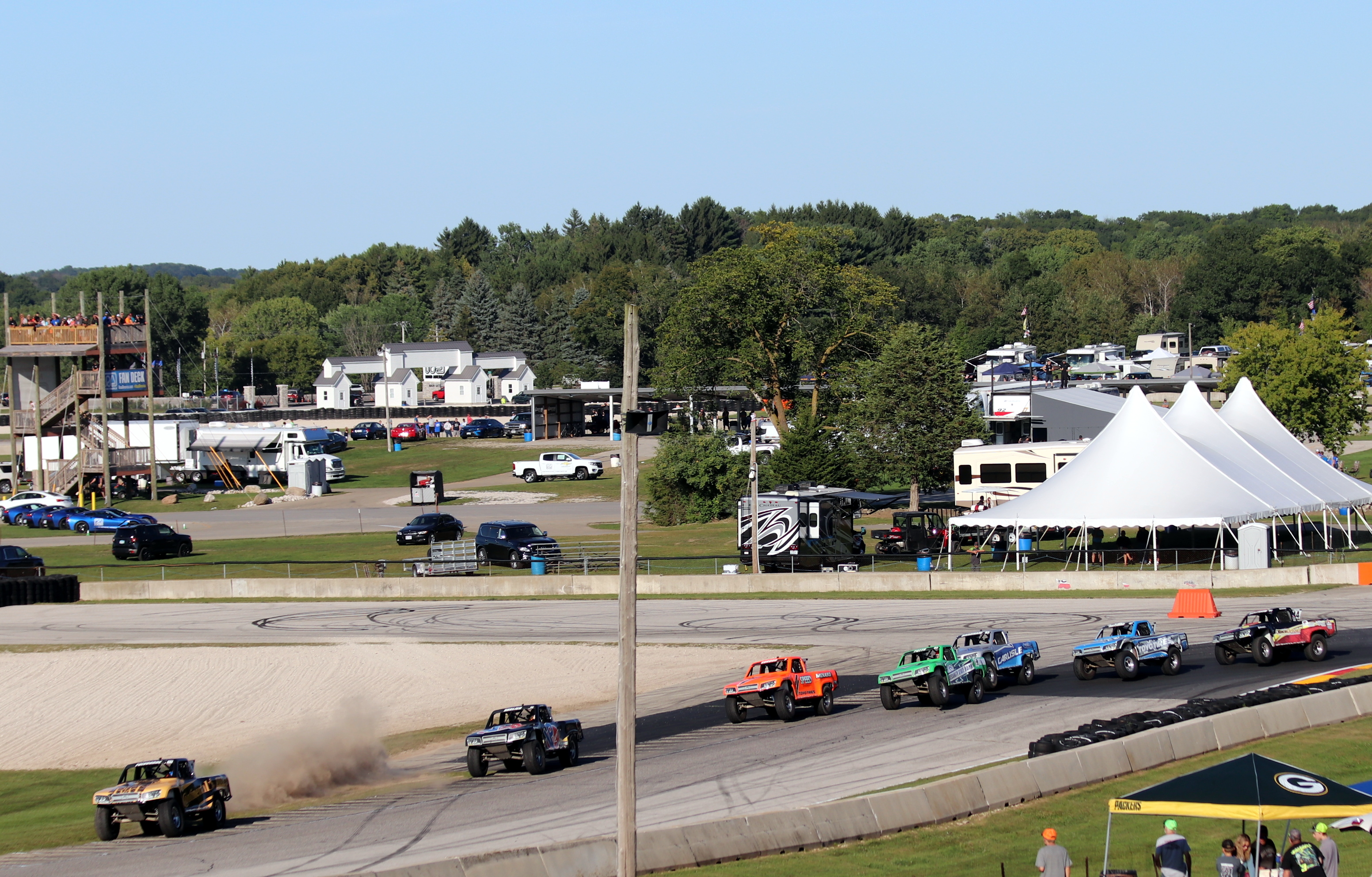 The field of Stadium Super Truck in Turn 5 at Road America in round 15.